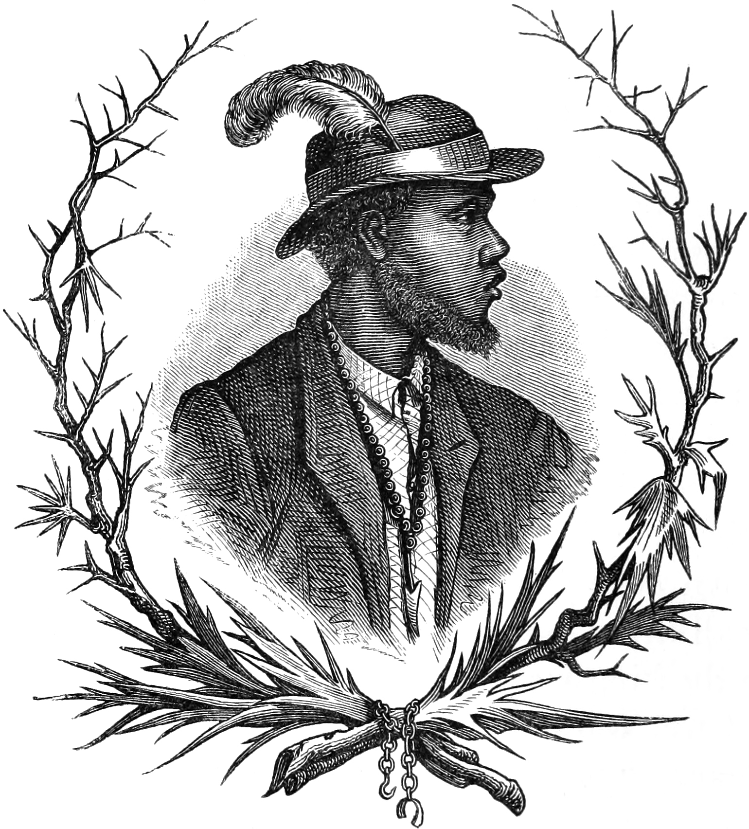 King Sepopo, from the book Seven Years in South Africa, volume 2, page 220